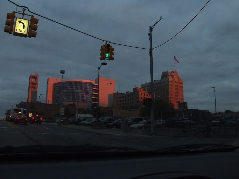 Pontiac, Michigan, USA